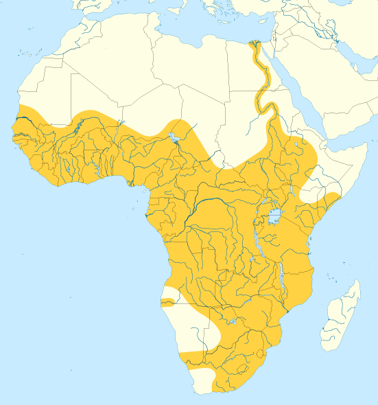 Nile monitor (varanus niloticus) distribution map